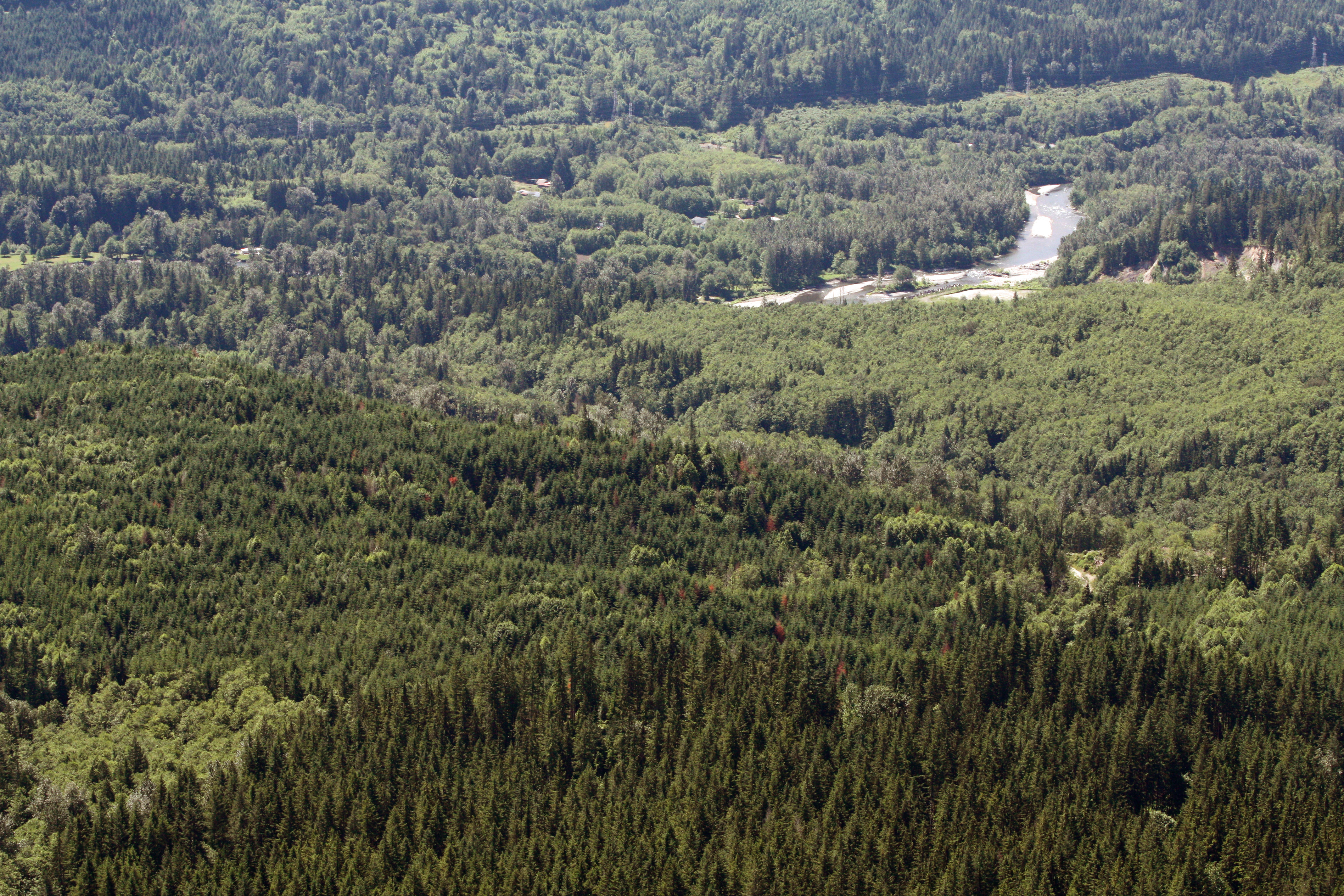 Stillaguamish River (North Fork), site of the March 22, 2014, Oso mudslide; the unstable area is covered with red alder, bigleaf maple and black cottonwood (light green) forest (right of center and below river). An eroding slope on the far side of the unstable area was left by a smaller slide that briefly dammed the river on January 25, 2006, and by similar previous events. The mudslide flowed to the upper left, across the river into the Steelhead Drive area. Most, if not all, of the houses visible in the image were destroyed.